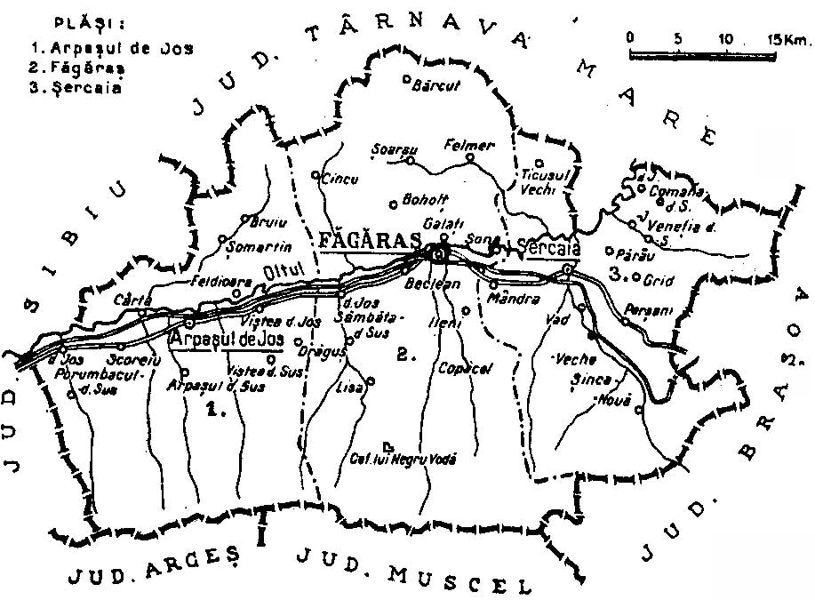 Map of Făgăraș interwar county, Kingdom of Romania (1938).